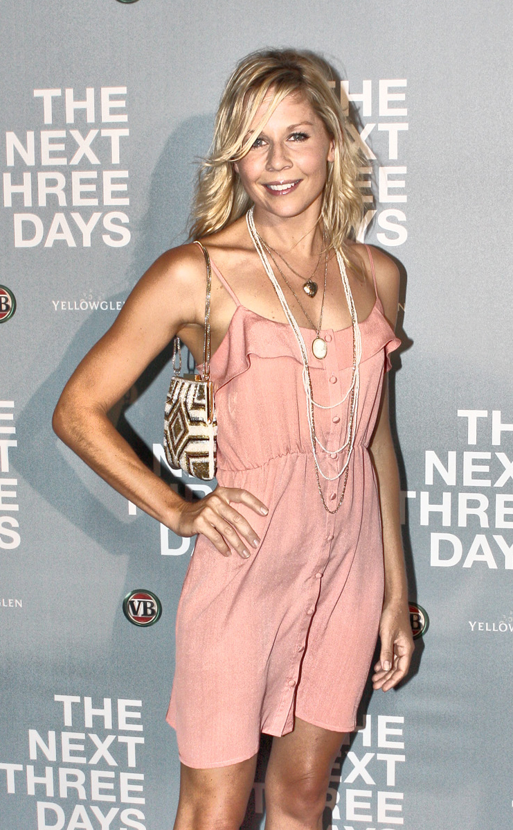 Gigi Edgley at the Sydney premiere of The Next Three Days in January 2011.